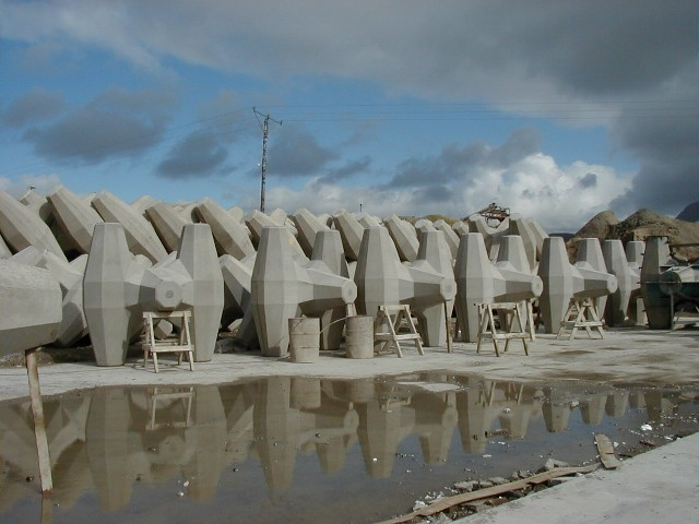 The unique shape of CORE-LOC® provides extraordinary interlocking and achieves an optimal blend of structural integrity and hydraulic stability.